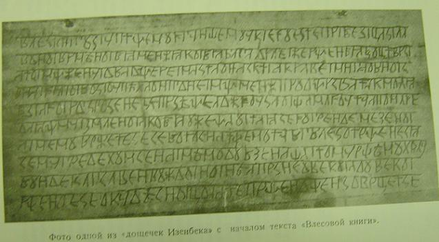 Isenbeck's Plank